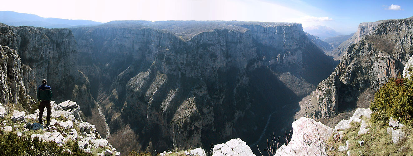 The Vikos gorge, Vikos-Aoos National Park, Epirus, Greece. Panorama of several photos, ranging approximately 180 degrees.